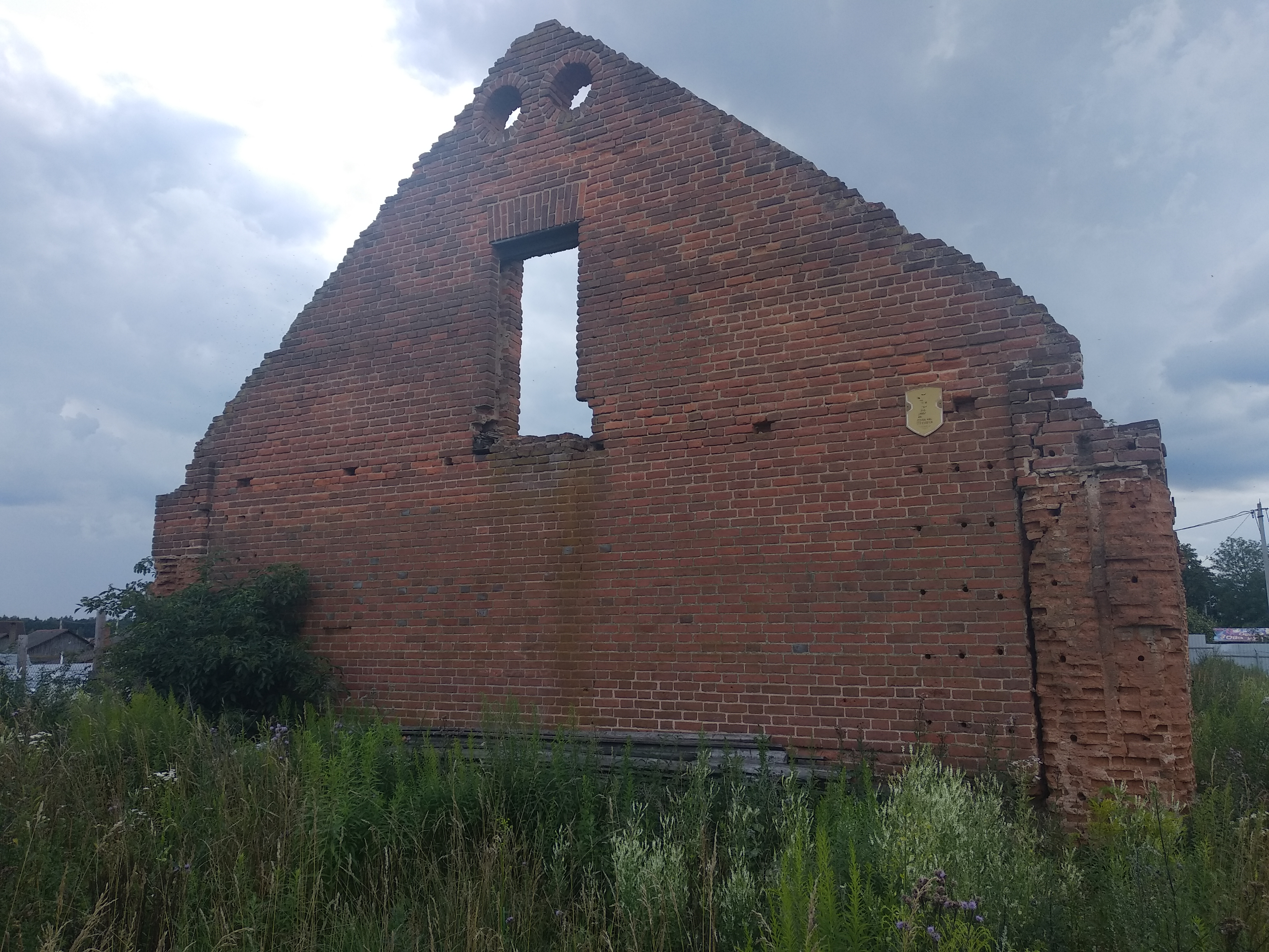 Ruins of old building in Karaliscavici, Belarus